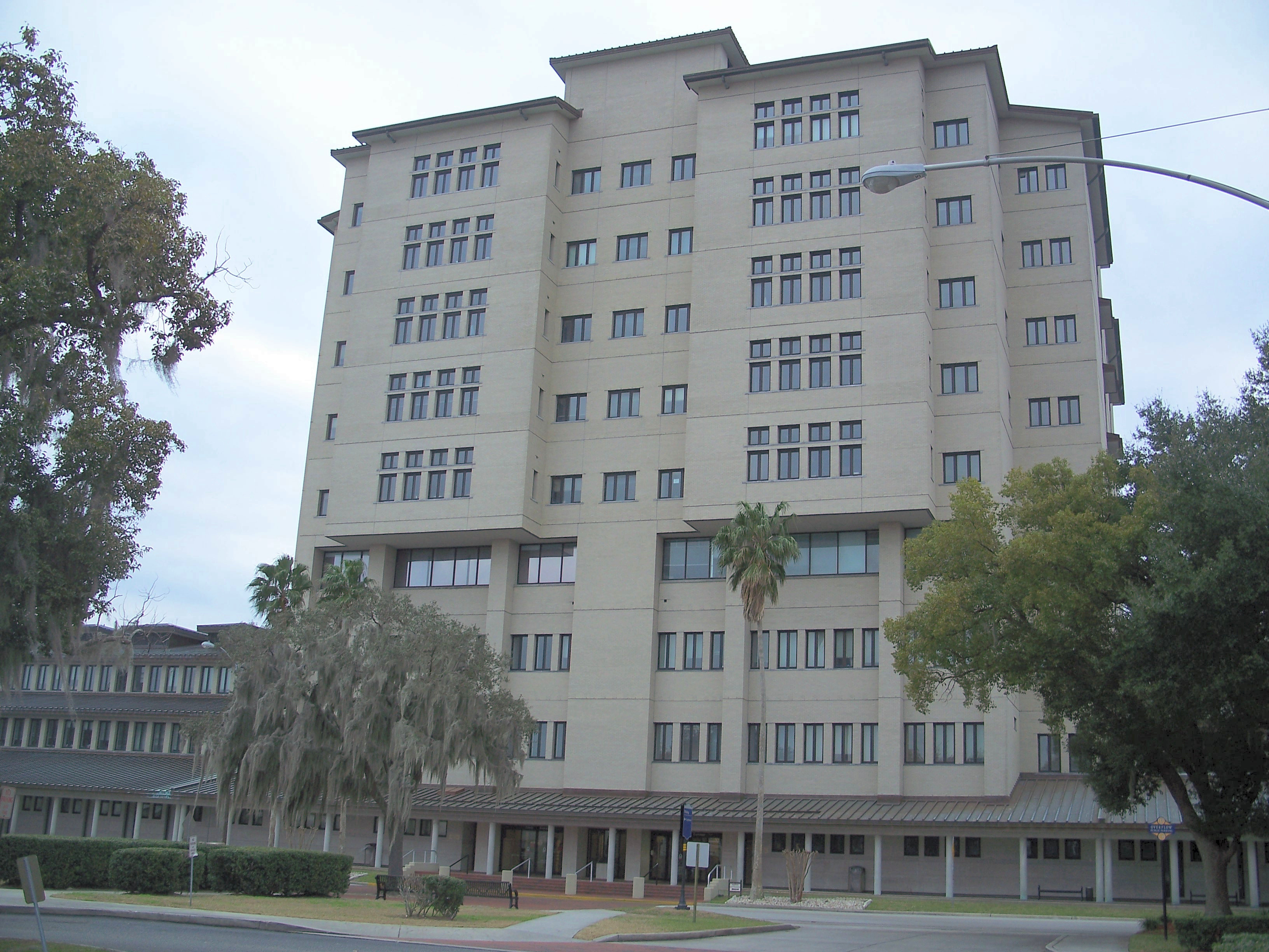 Bartow, Florida: Polk County Courthouse, completed in 1987[1]